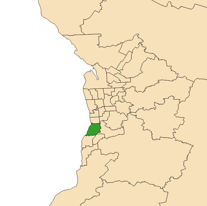 Electoral district 2018 boundaries shown in green